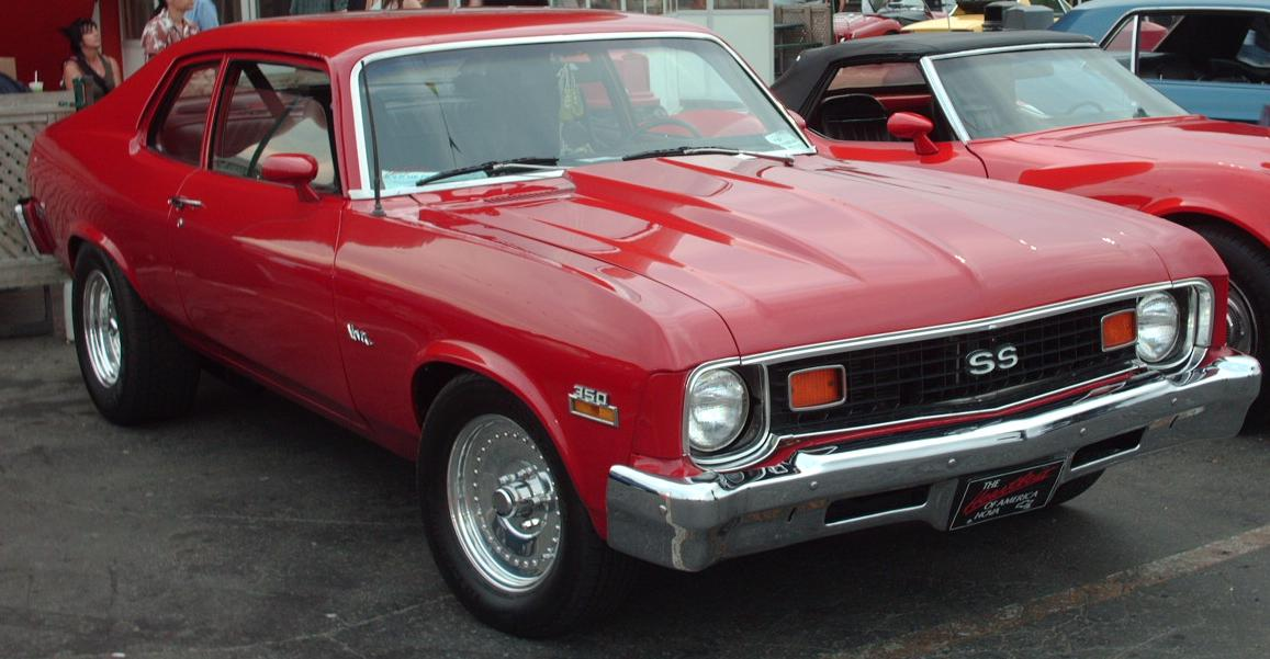 1968-1974 Chevrolet Nova photographed in Montreal, Quebec, Canada at Gibeau Orange Julep.